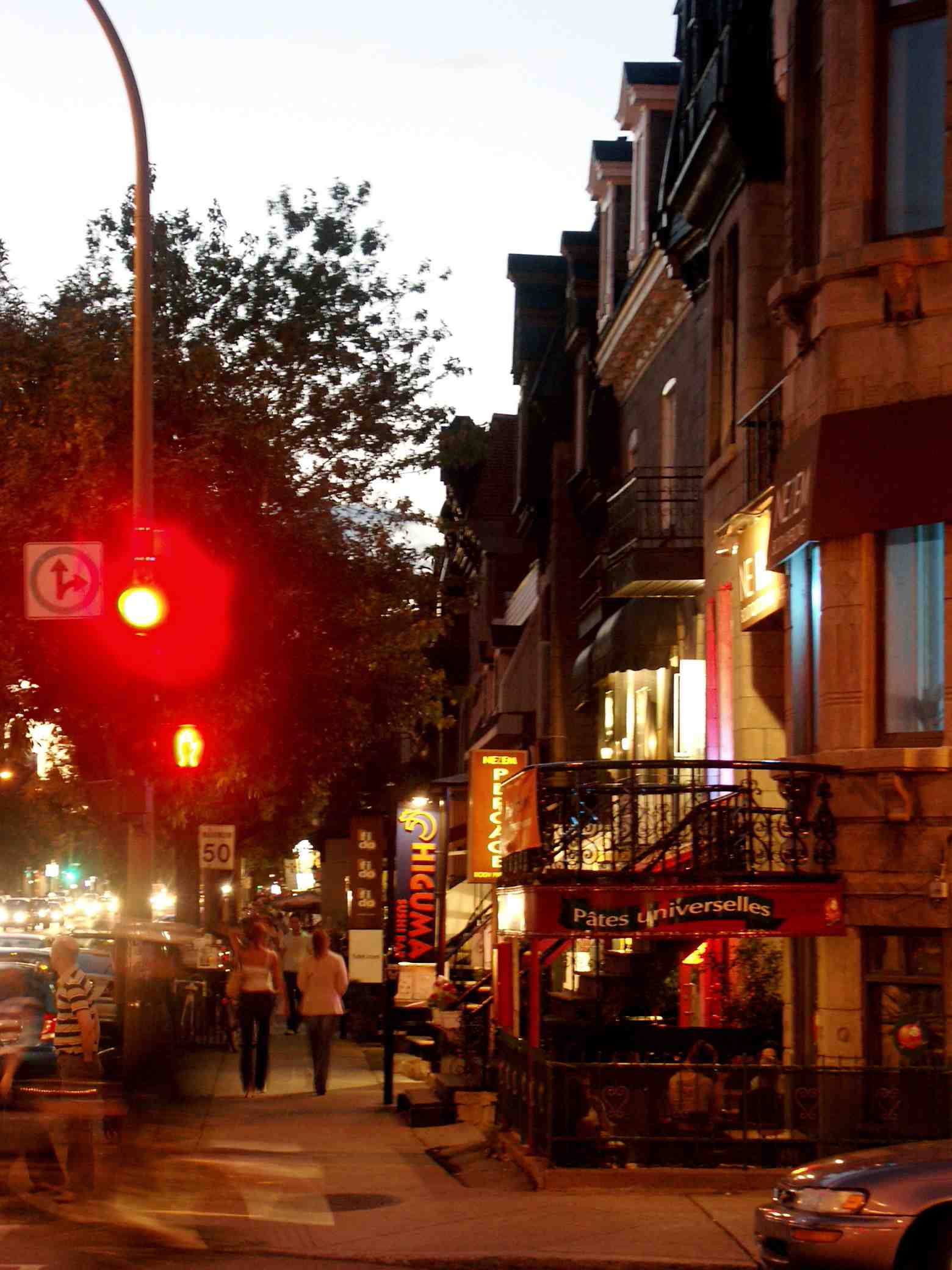 Saint-Denis Street in plateau Mont-Royal, Montréal